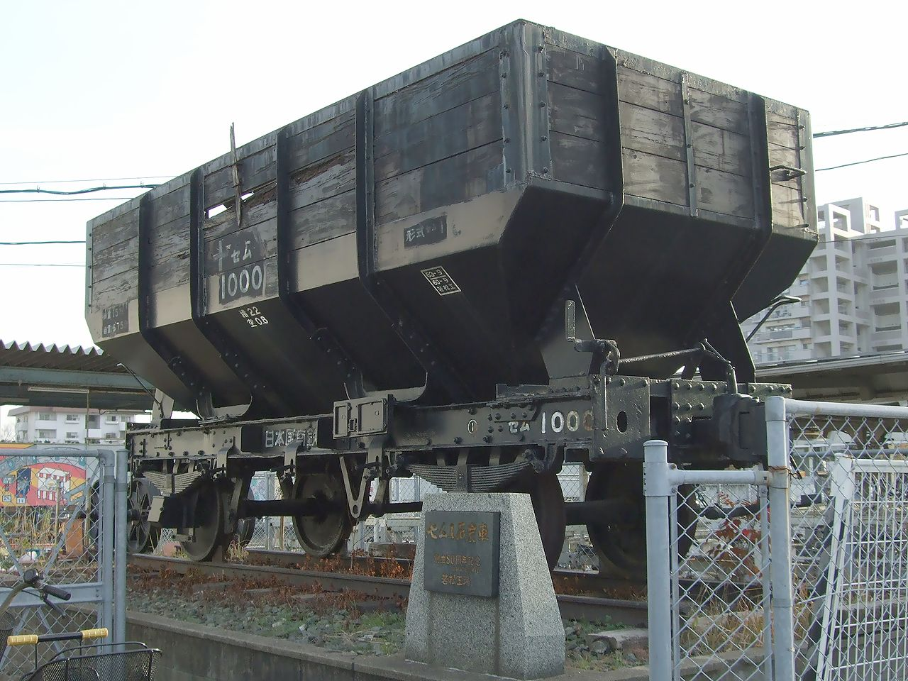 Company:Japanese National Railways Type:Freight car(hopper car for coal transporting) semu1 Number:semu1000 Place:at Wakamatsu Station, Wakamatsu Ward, Kitakyushu City, Fukuoka, Japan.